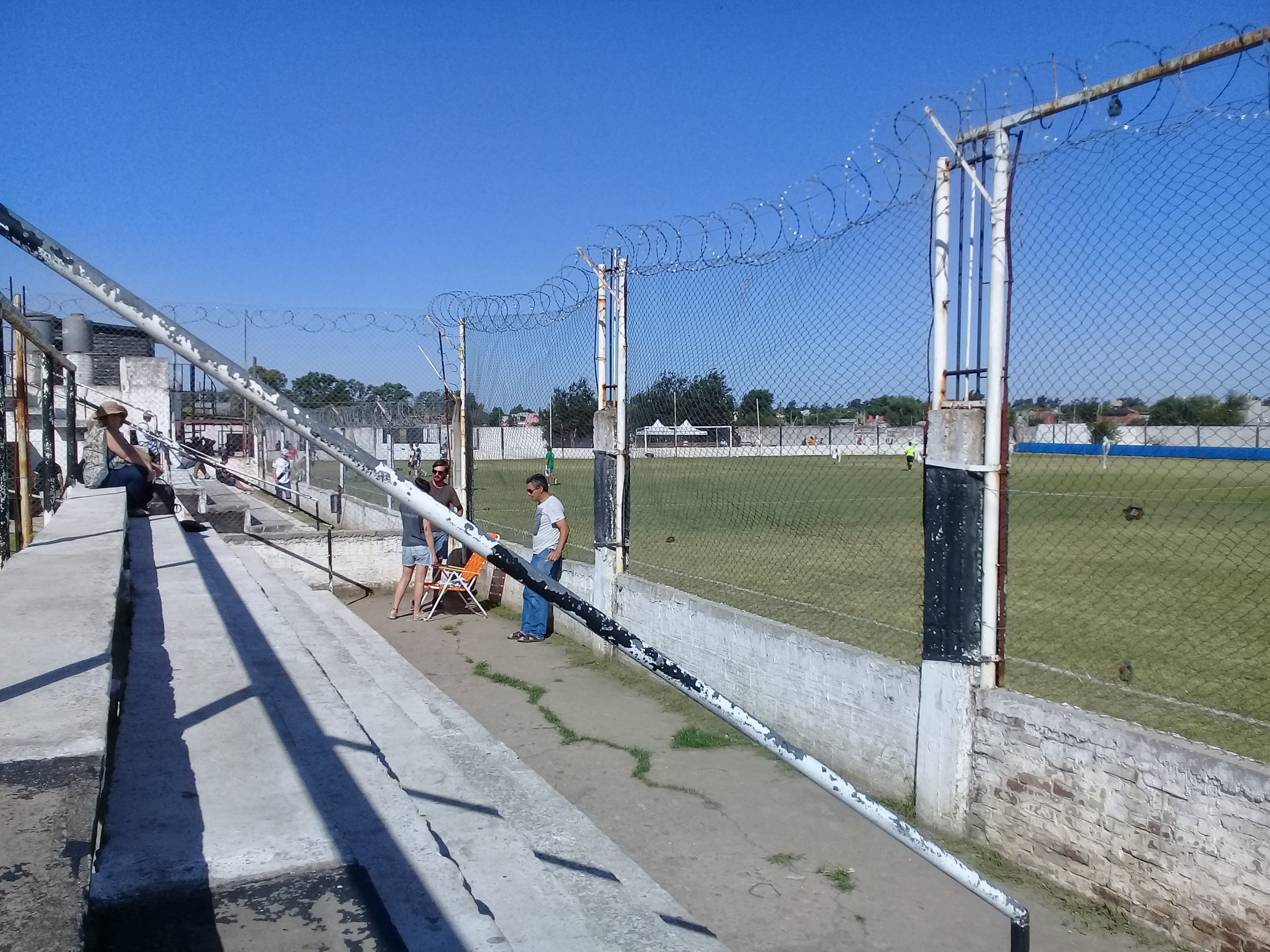 Estadio de Claypole